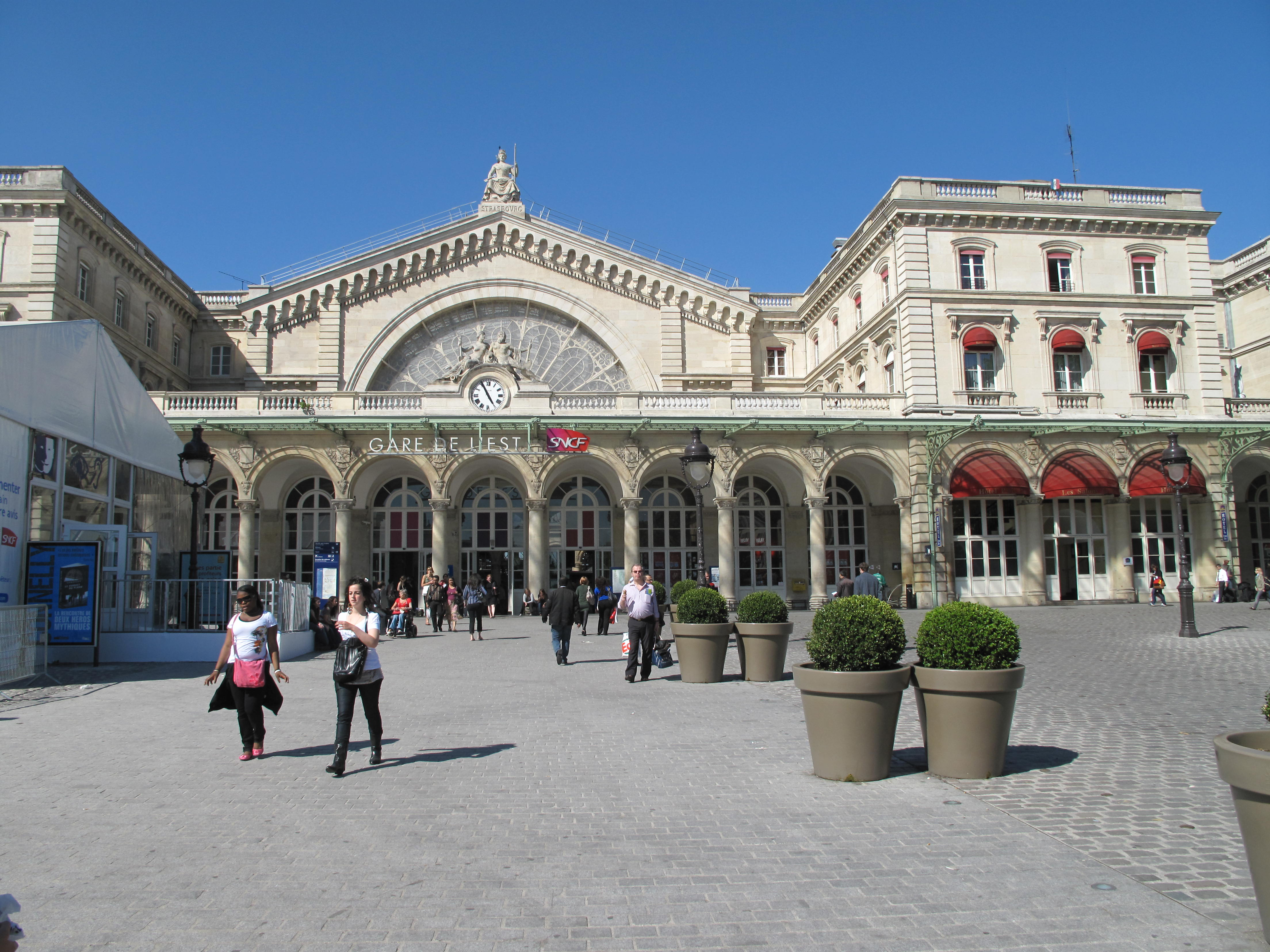 Main lines entrance of gare de l'Est, Paris. At the top, a statue of the town of Strasbourg (At the top of the other entrance, is a statue of the town of Verdun).